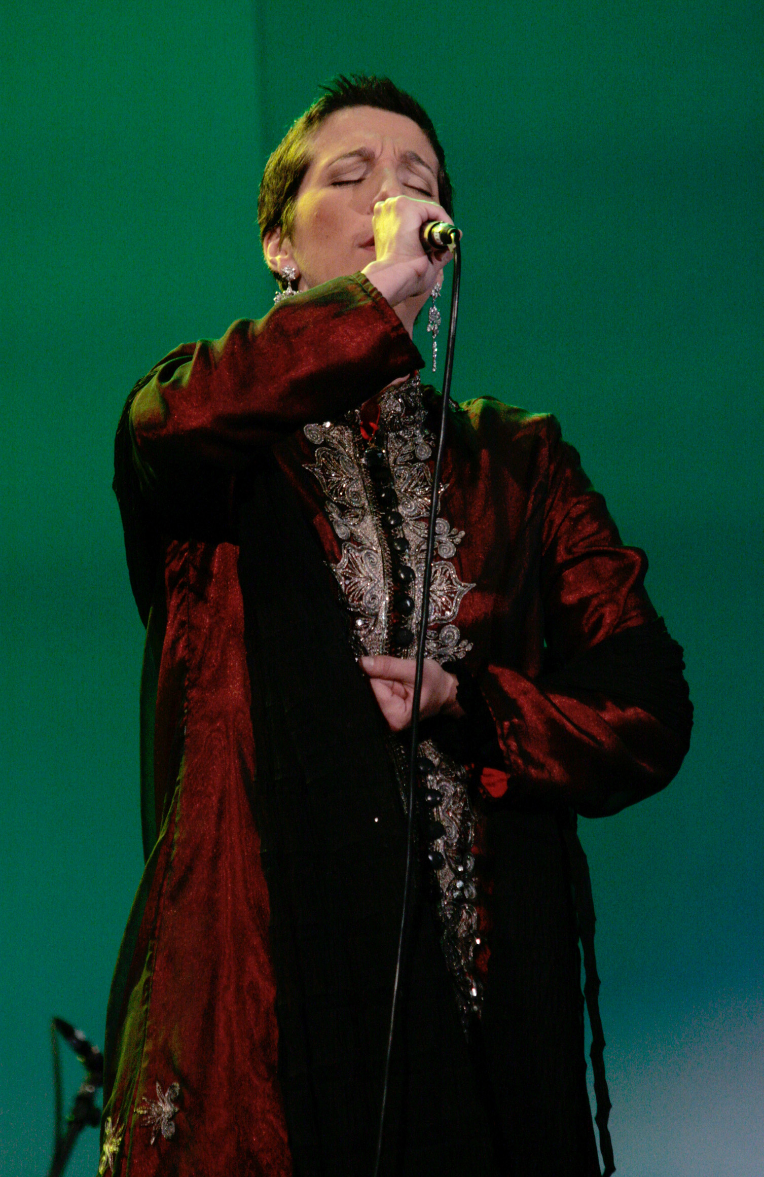 Dulce Pontes; concert at the opening of the Vienna Festival 2009